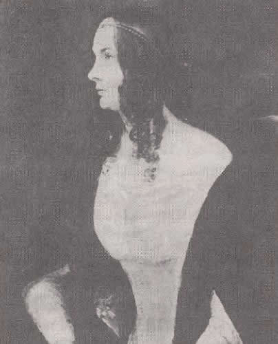 Elise Ruediger, née Baroness von Hohenhausen (1812–1899)